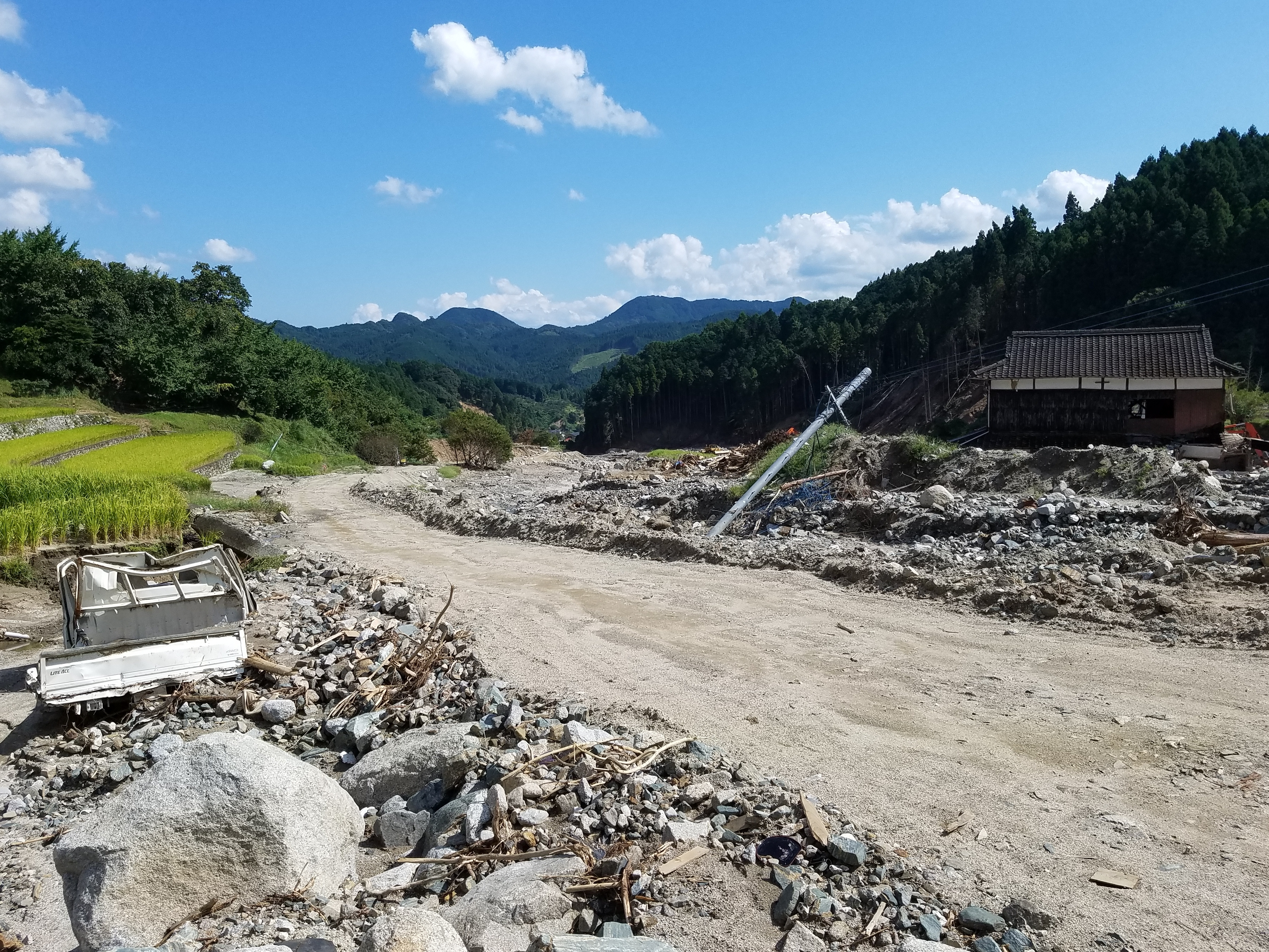 Flood recovery efforts - debris removal and level the grounds in Asakura, Fukuoka.